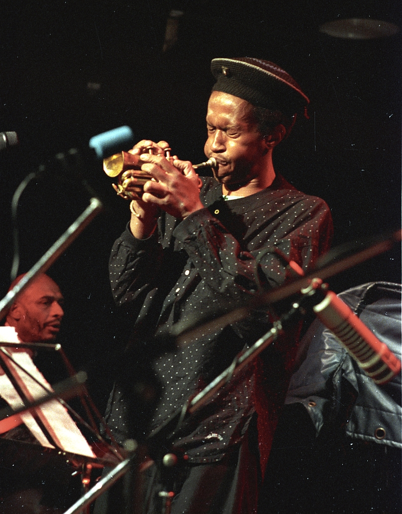 concert in the famous Fabrik, Hamburg, Germany , last millenia